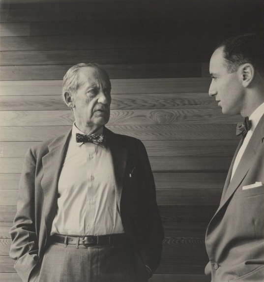 Portrait of Walter Gropius with Harry Seidler in Sydney inside the Julian Rose House, Wahroonga NSW (Seidler-designed house finishing construction)- at time of Gropius' visit to Australia for May 1954 RAIA convention.